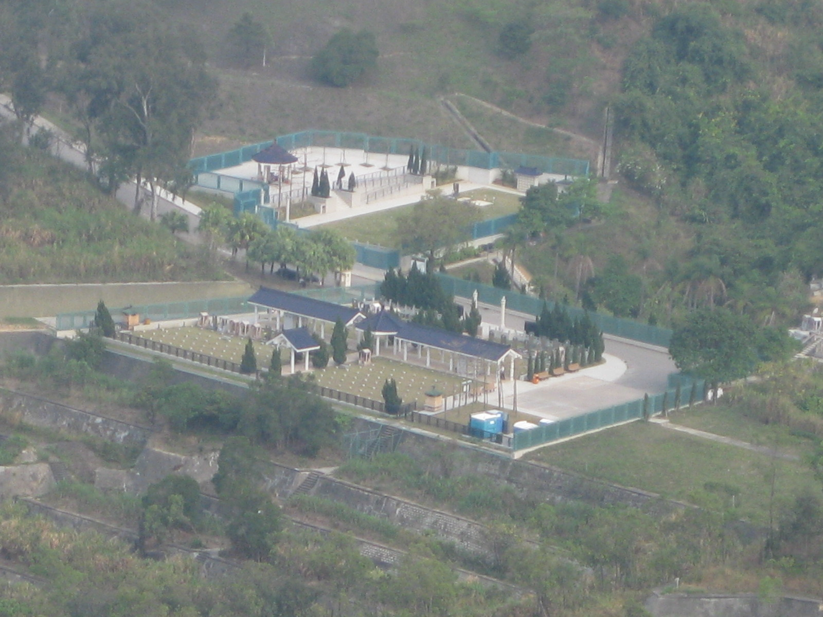 Tribute Garden and Gallant Garden